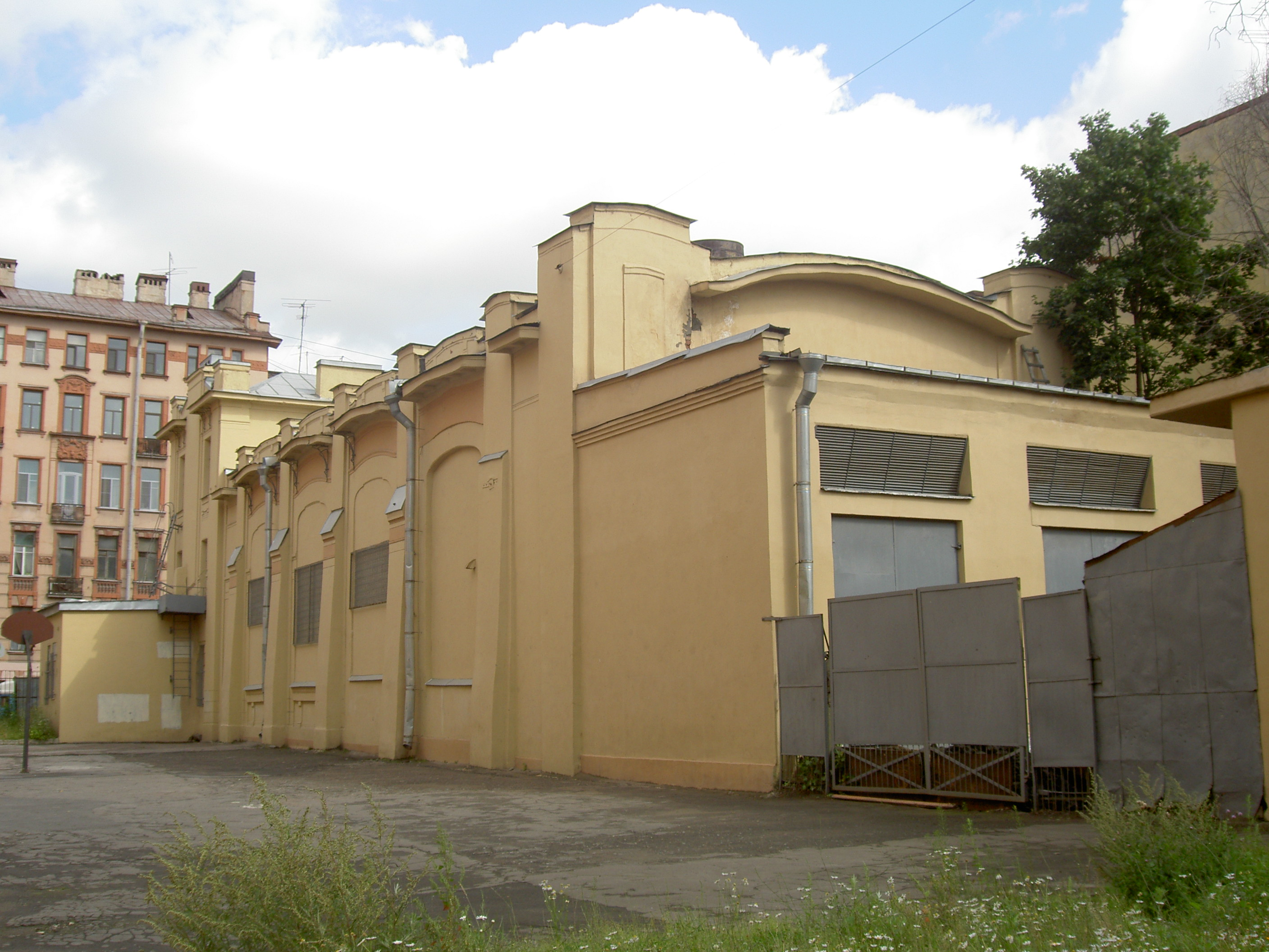 «Gorelectrotrans» electric substation in Saint Petersburg. Adress: 11th Krasnoarmeyskaya str., 28. View from the 12th Krasnoarmeyskaya street